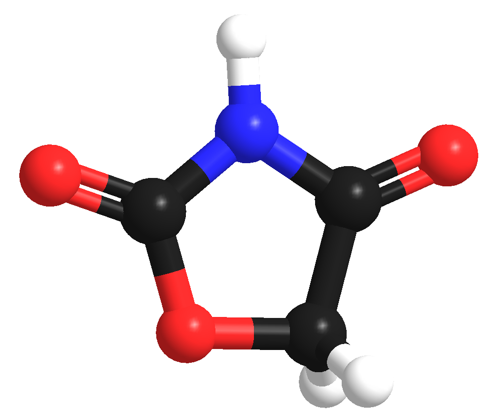 2,4-Oxazolidenedione 3D Balls